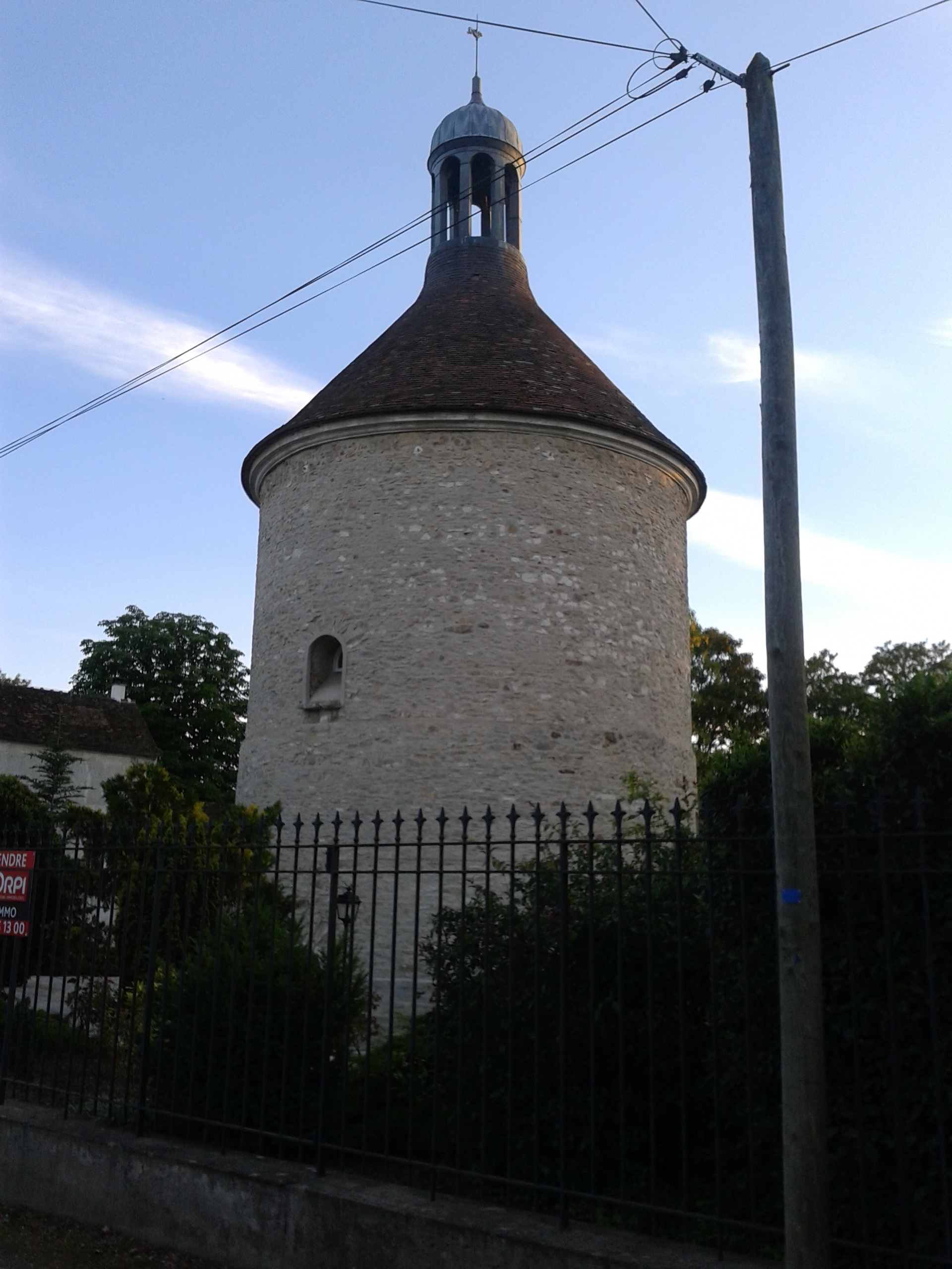 "Le Colombier" is a vestige of the countryside residence of bishops in Germigny. It belongs to a great property including a castle, which was demolished to be rebuild. In the meantime the French Revolution happened and the works were stopped. This building is among the few remains of the castle, which survived until now.